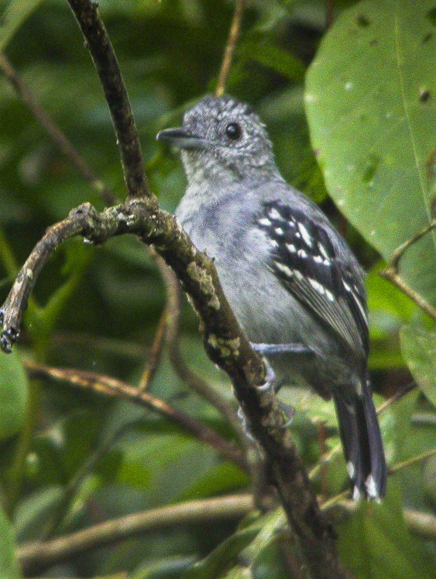 Slaty antwren (Myrmotherula schisticolor) - Ecuador 05 dgs